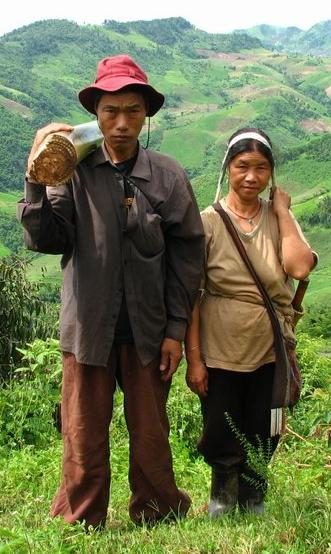 Akha couple in northern Thailand. The husband is carrying the stem of a banana-plant, which will be fed to their pigs.